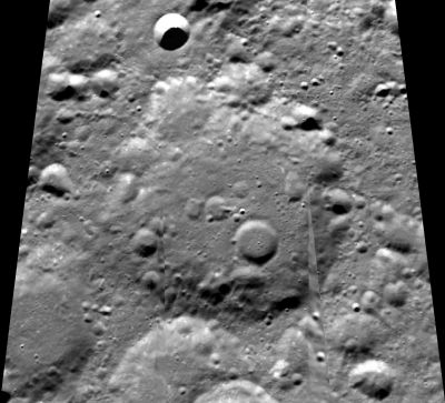 Roberts lunar crater - Clementine image